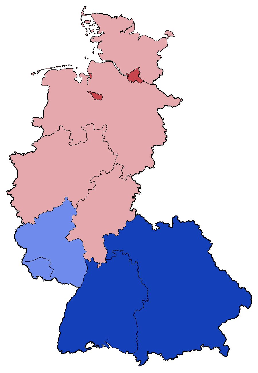 Electoral map showing the party list vote results (Zweitstimmen) of the 1976 Bundestag (West German parliament) elections by state. Red denotes states where the SPD had the the absolute majority of the votes; pink denotes states where the SPD had the plurality of votes; darker blue denotes states where CDU/CSU had the absolute majority of the votes; and lighter blue denotes states where CDU/CSU had the plurality of votes.